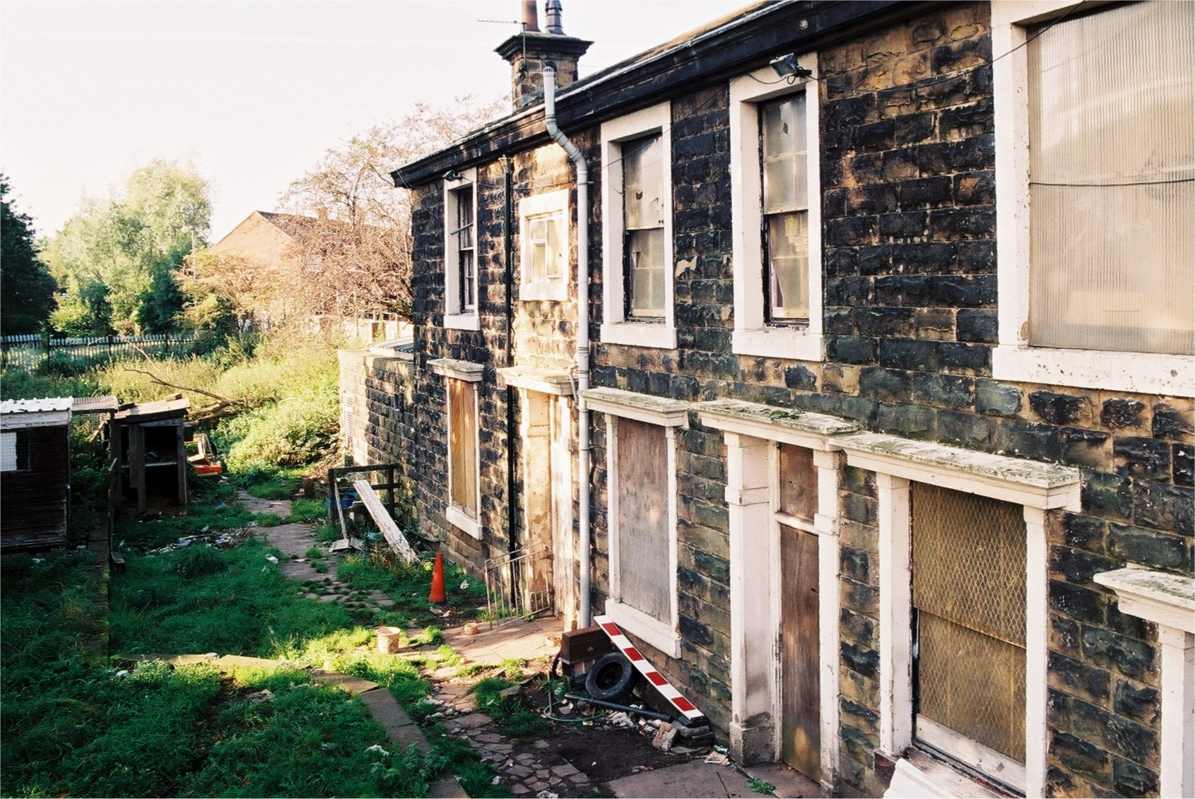 The remains, in 2007, of Ribbleton railway station, in Preston, Lancashire, England, which closed in 1930.